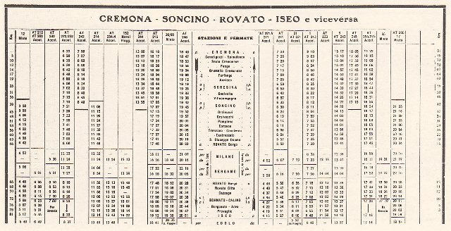 Cremona-Iseo 1953 timetable